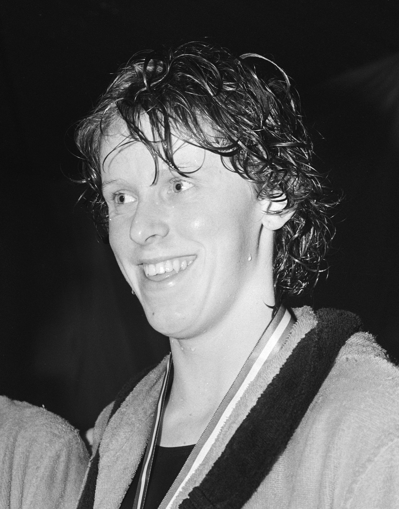 Annemarie Verstappen